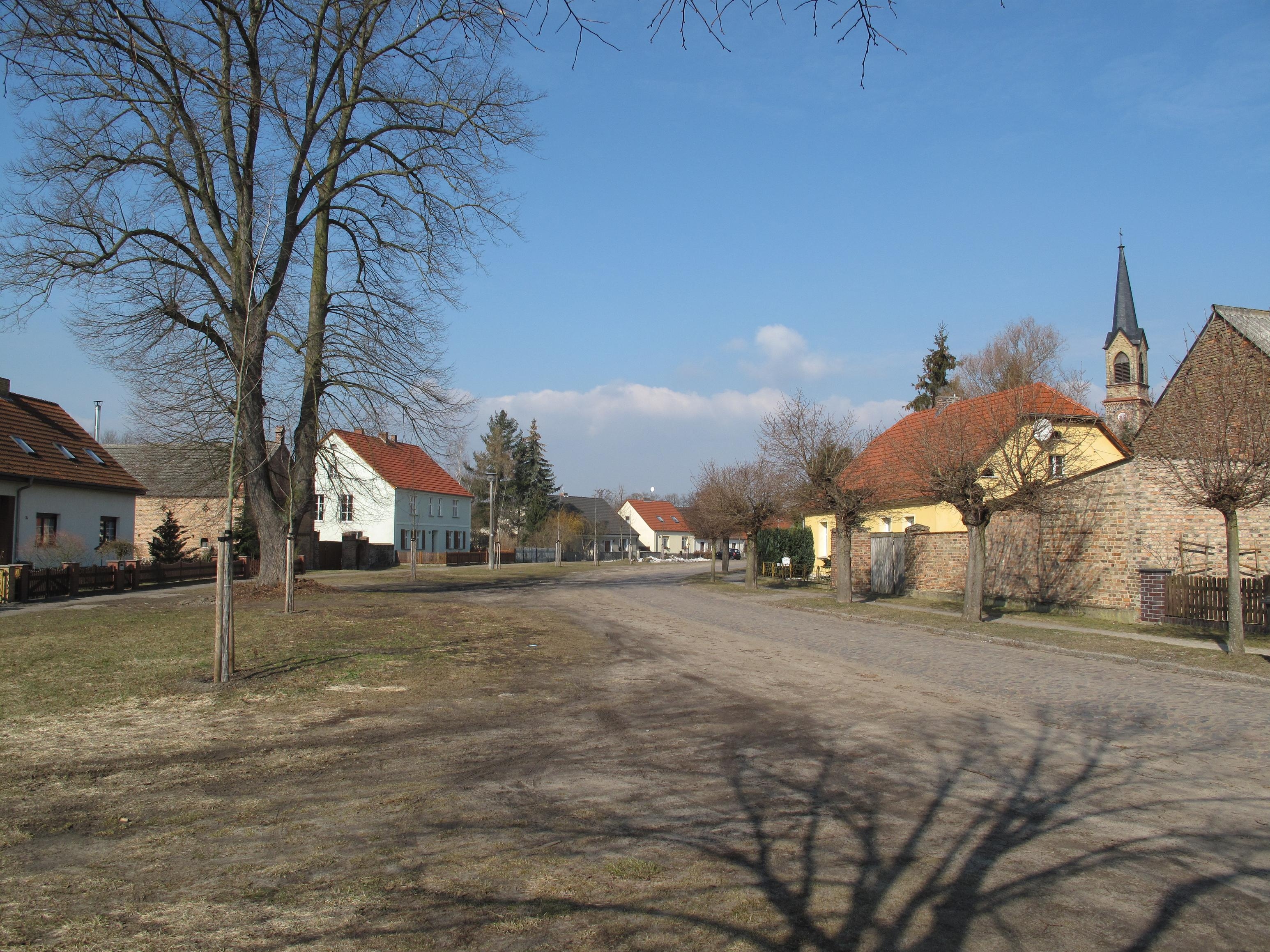 „Stückener Dorfstraße“ (village street) in Stücken. Stücken is a part of Michendorf in the district Potsdam-Mittelmark, state Brandenburg, Germany.